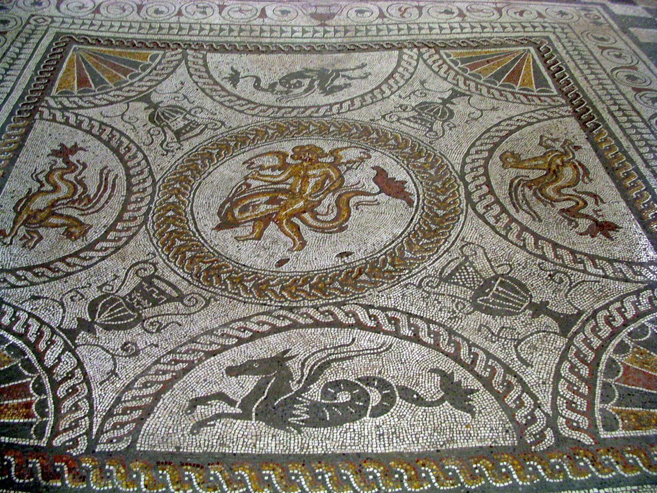 The dolphin mosaic at Fishbourne Roman Palace, West Sussex, England.